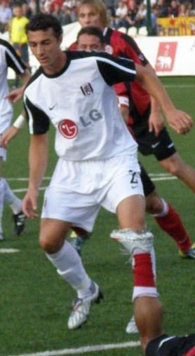 Stephen Kelly in action for Fulham F.C.